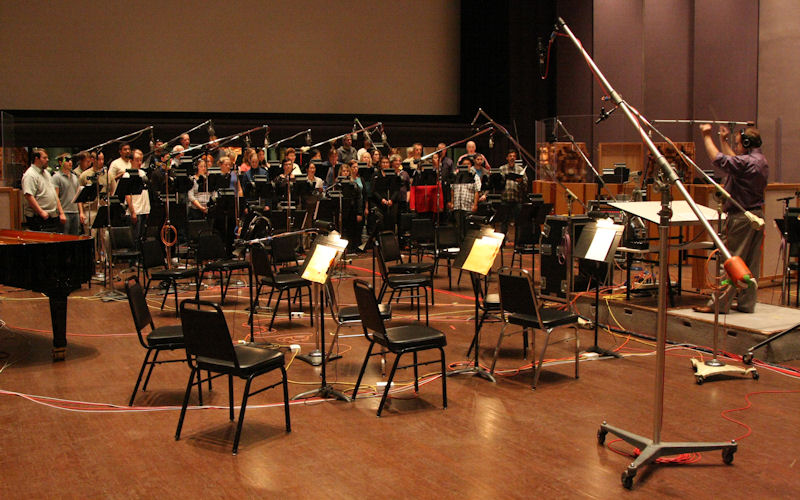 Conductor Daniel Hughes and The Choral Project recording at Skywalker Sound in Marin County, California.